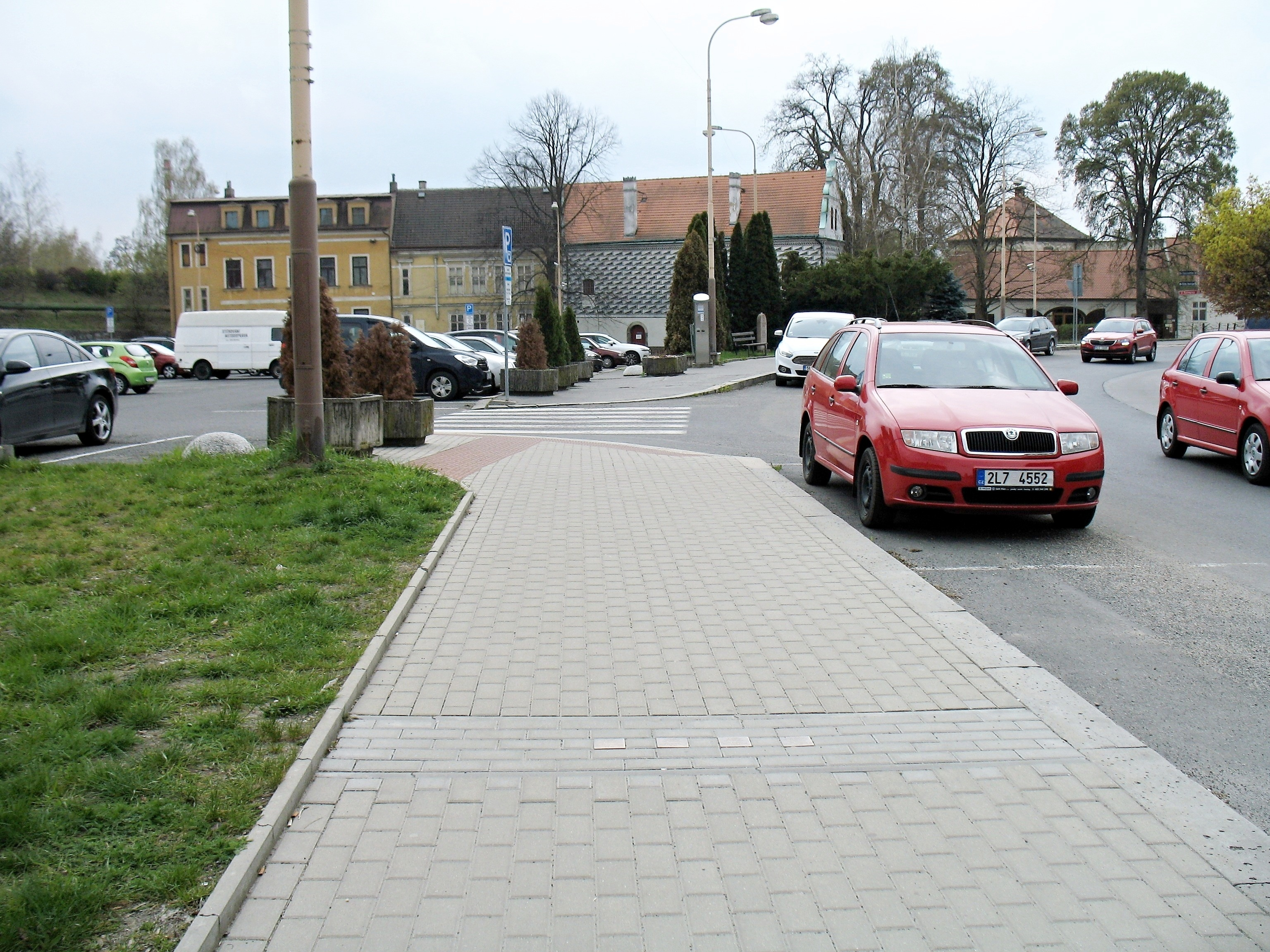 Stolpersteine for jewish family Wolff in Česká Lípa, street U Synagogy, Czech Republic